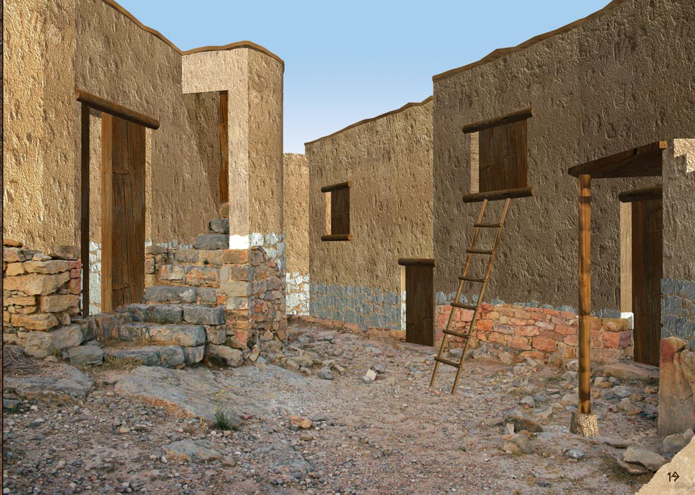 Reconstruction of the iberian site of Castellet de Bernabe